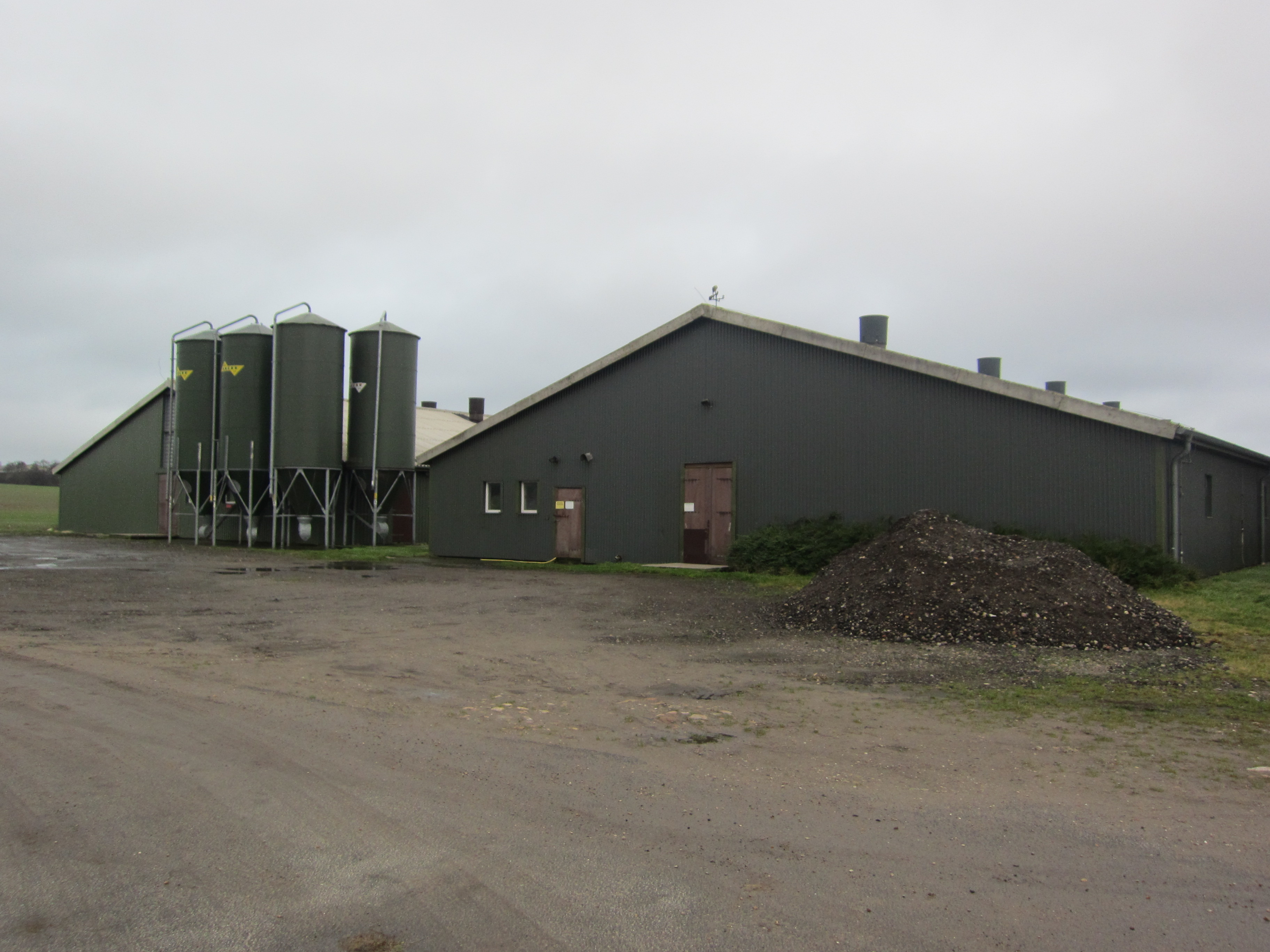 Pigsty of the farm Johannes N. T. Lorenzen, Süderkamp 7, Ostenfeld, Nordfriesland